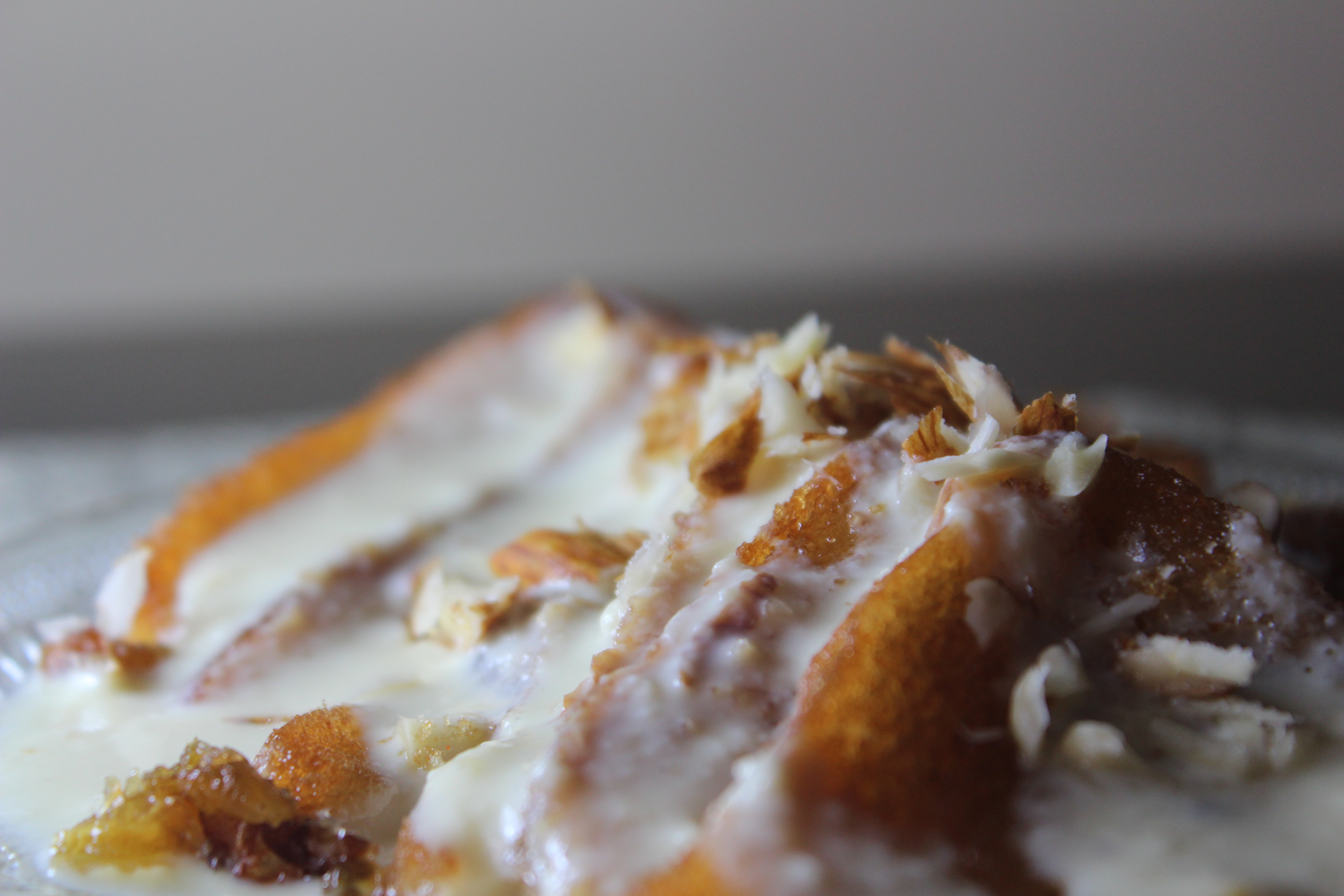 Shahi tukda is a rich dessert and it lives up to its name. Pieces of bread that have been deep fried till golden brown and crisp are topped with the very popular rabdi and garnished with loads of dry fruits